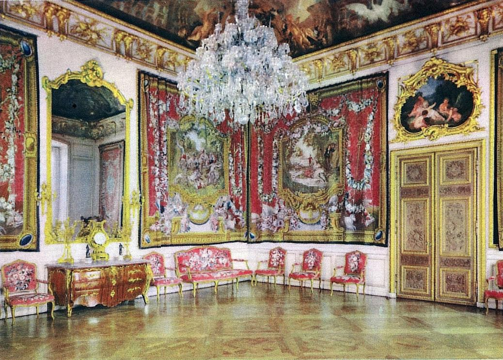 The Don Quijote-hall in the Festvåningen part of the Royal Palace, Stockholm, 1938, with overdoor paintings by François Boucher.